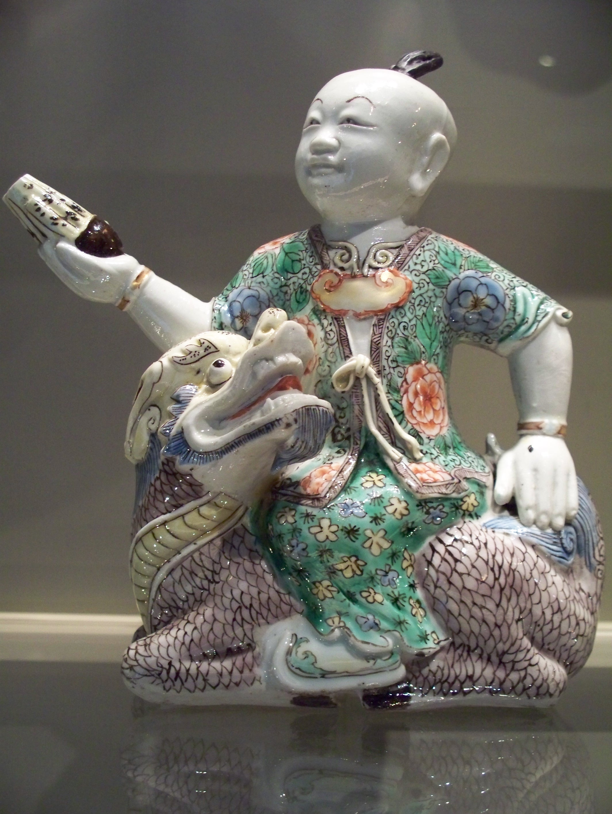 Teapot Kangxi reign (Qing dynasty), ca. 1700 Porcelain, H. 18.4 cm Taft Museum of Art, Taft collection, April 30, 1915 1931.27 Wikipedia Loves Art at the Taft Museum of Art This photo of item # 1931.27 at the Taft Museum of Art was contributed under the team name "Opal_Art_Seekers_4" as part of the Wikipedia Loves Art project in February 2009. Taft Museum of Art The original photograph on Flickr was taken by Forever Wiser—please add a comment to the original Flickr page whenever a use has been made on Wikipedia or another project. Project galleries on Flickr: this institution, this team